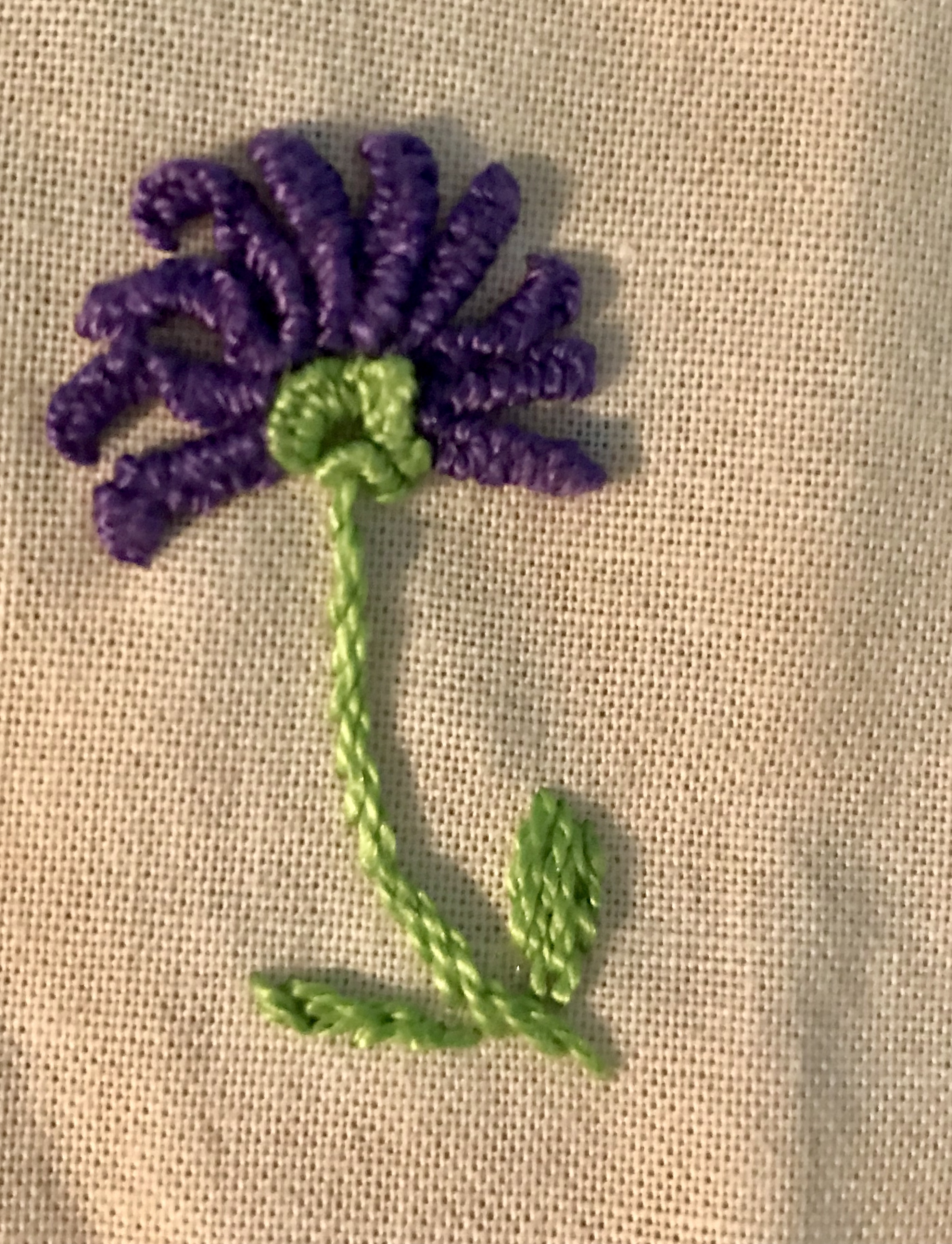 Stitched with rayon threads